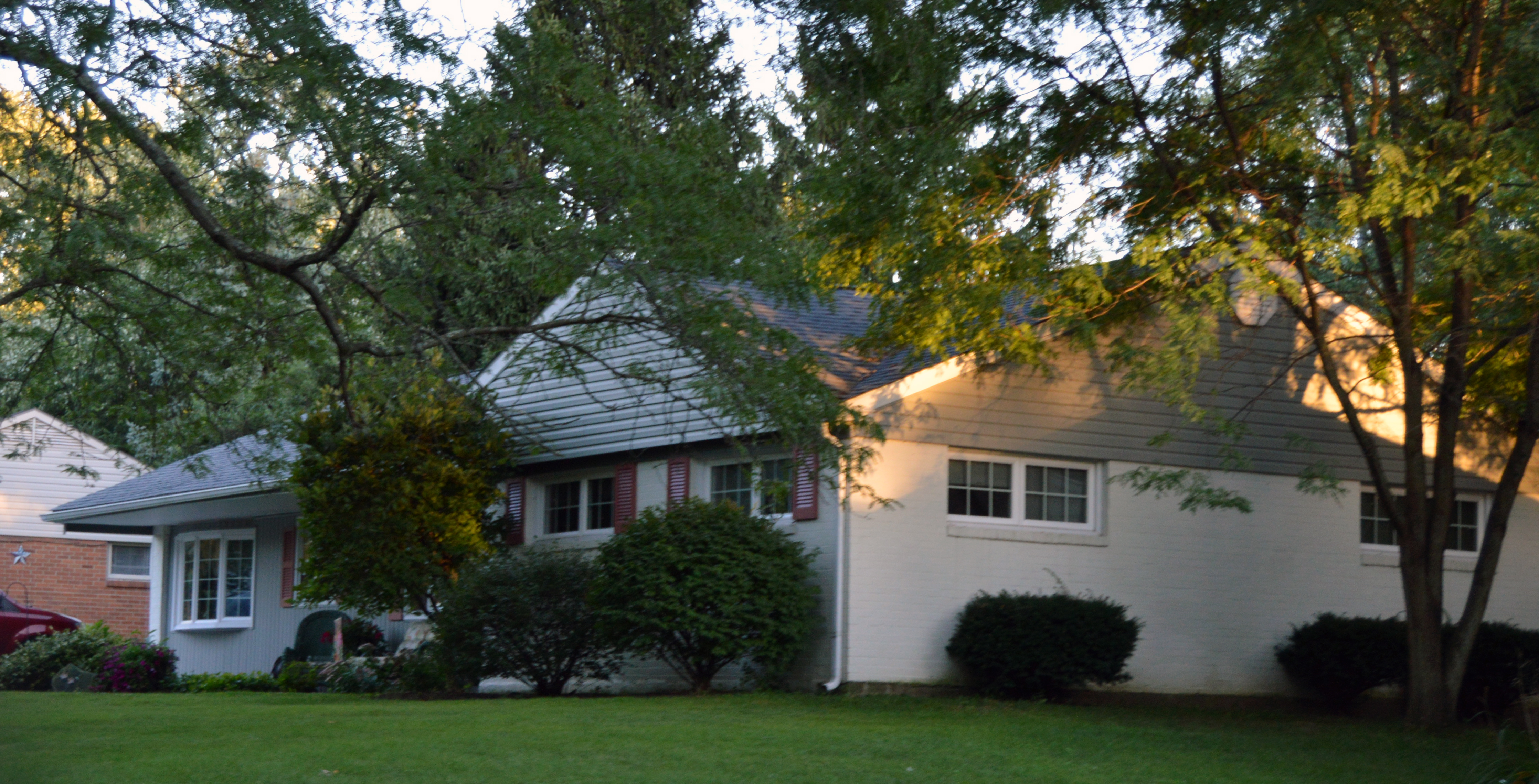 Front and western side of the Erma Bombeck House, located at 162 Cushwa Drive in Centerville, Ohio, United States. Built in 1959, it is listed on the National Register of Historic Places because it was the home of writer Erma Bombeck.